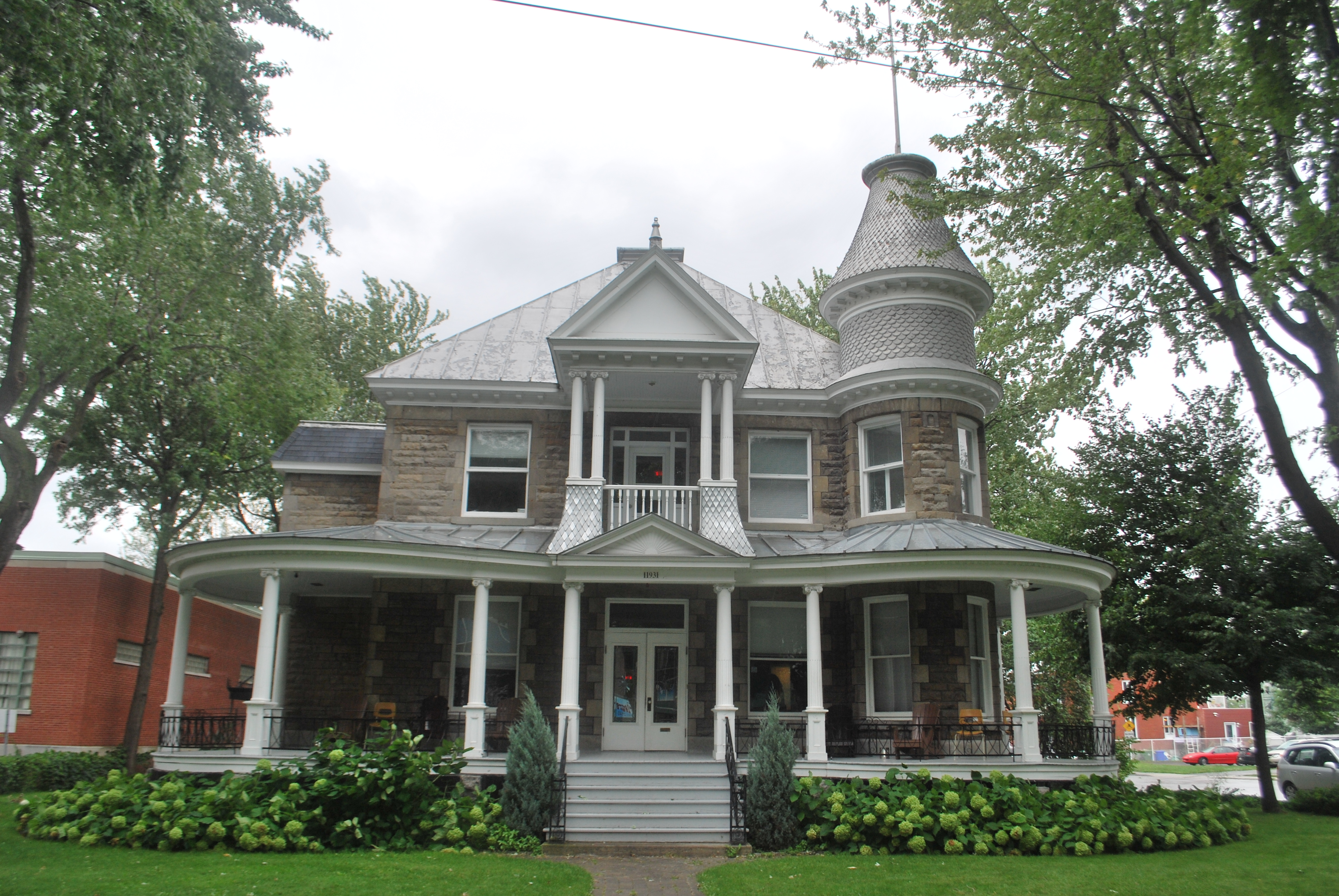 Maison Urgel-Charbonneau in Montréal.